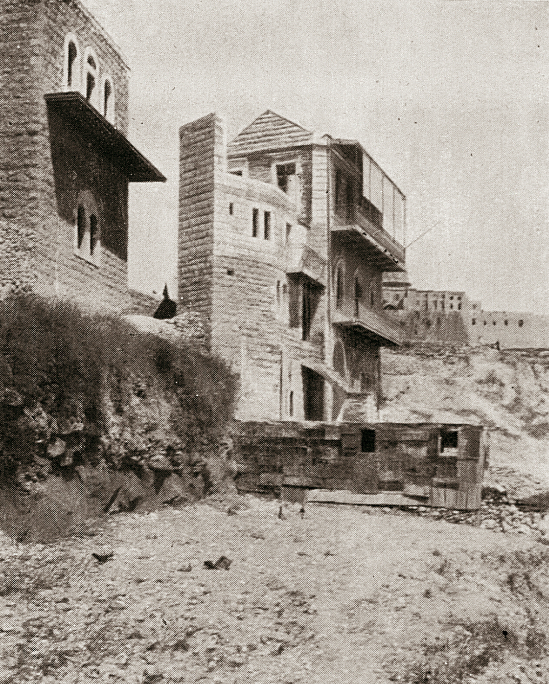 Parker Mission House.